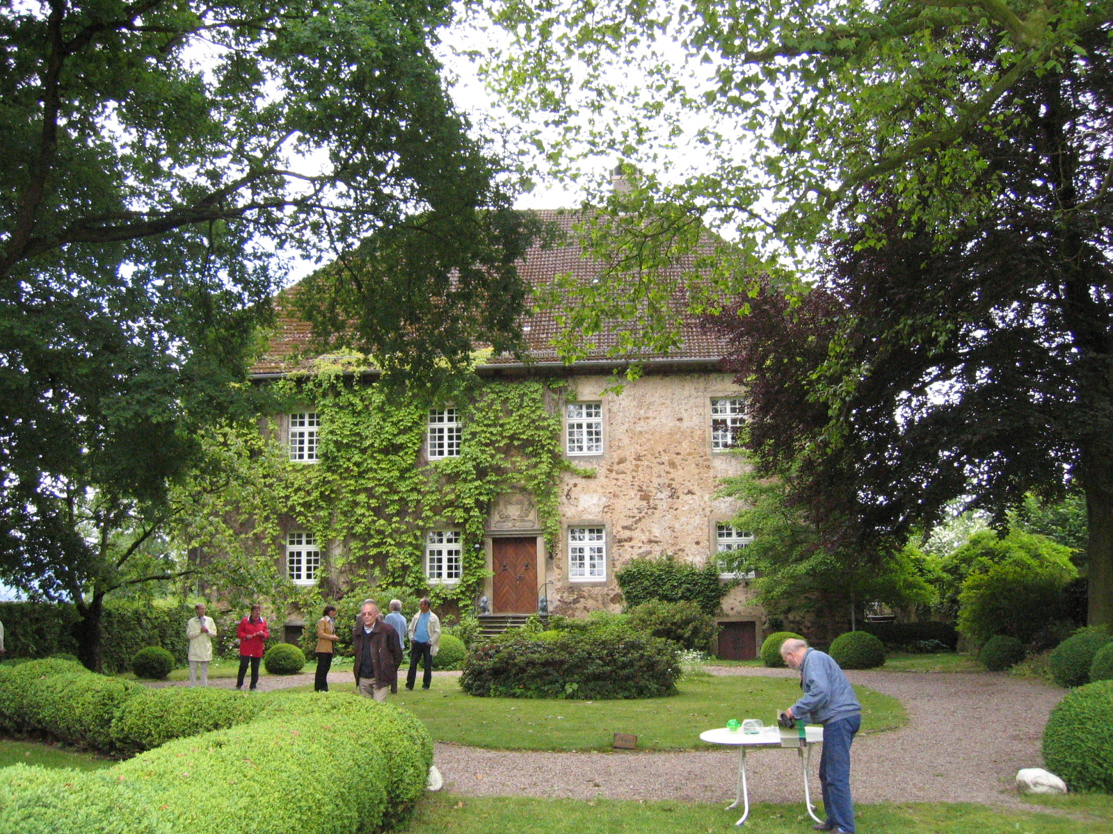 Stockhausen Manor in Lübbecke, District of Minden-Lübbecke, North Rhine-Westphalia, Germany.